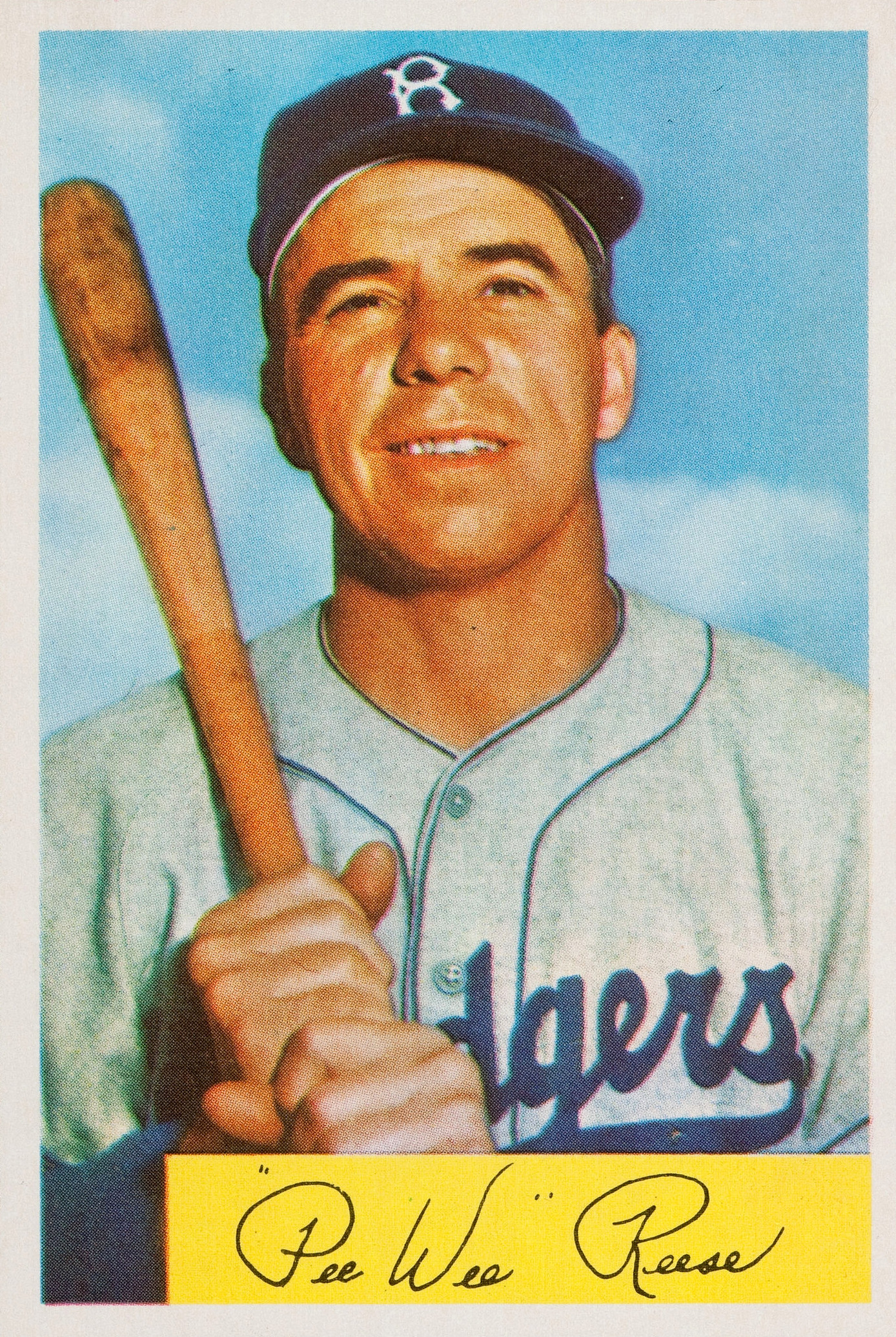 Pee Wee Reese displayed in a trading card manufactured by the Bowman Gum Company.